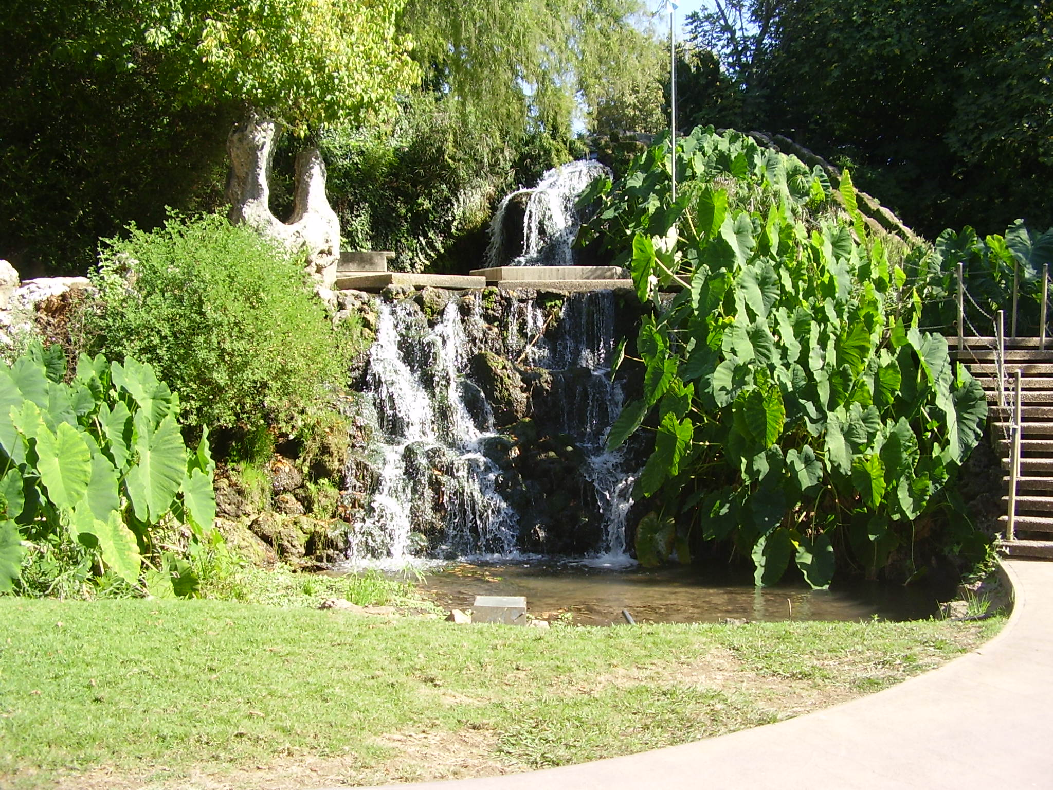 water cascade in kibbutz hagoshrim